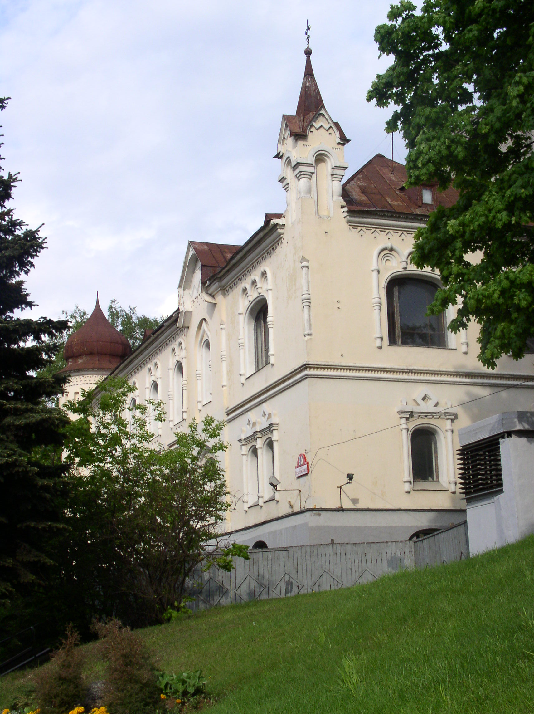 House of artists. Minsk, Belarus.